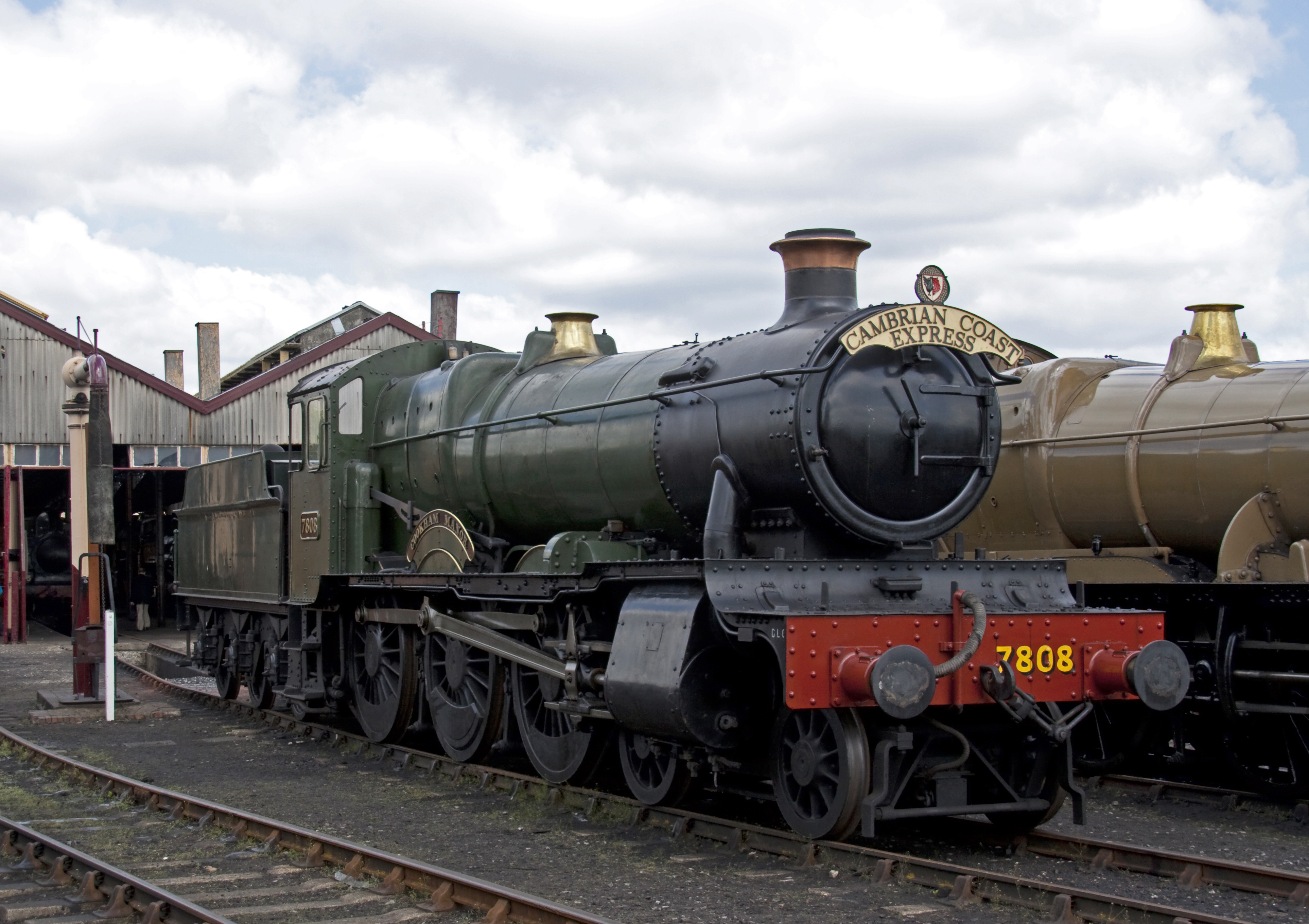 Cookham Manor 7808 1